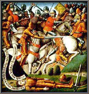 orreagako gudua